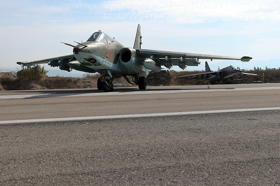 Preparation of the aircraft of the Russian air grouping in Syria for combat sorties